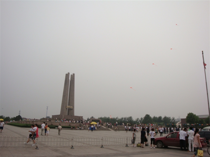 Tangshan urban area, Hebei